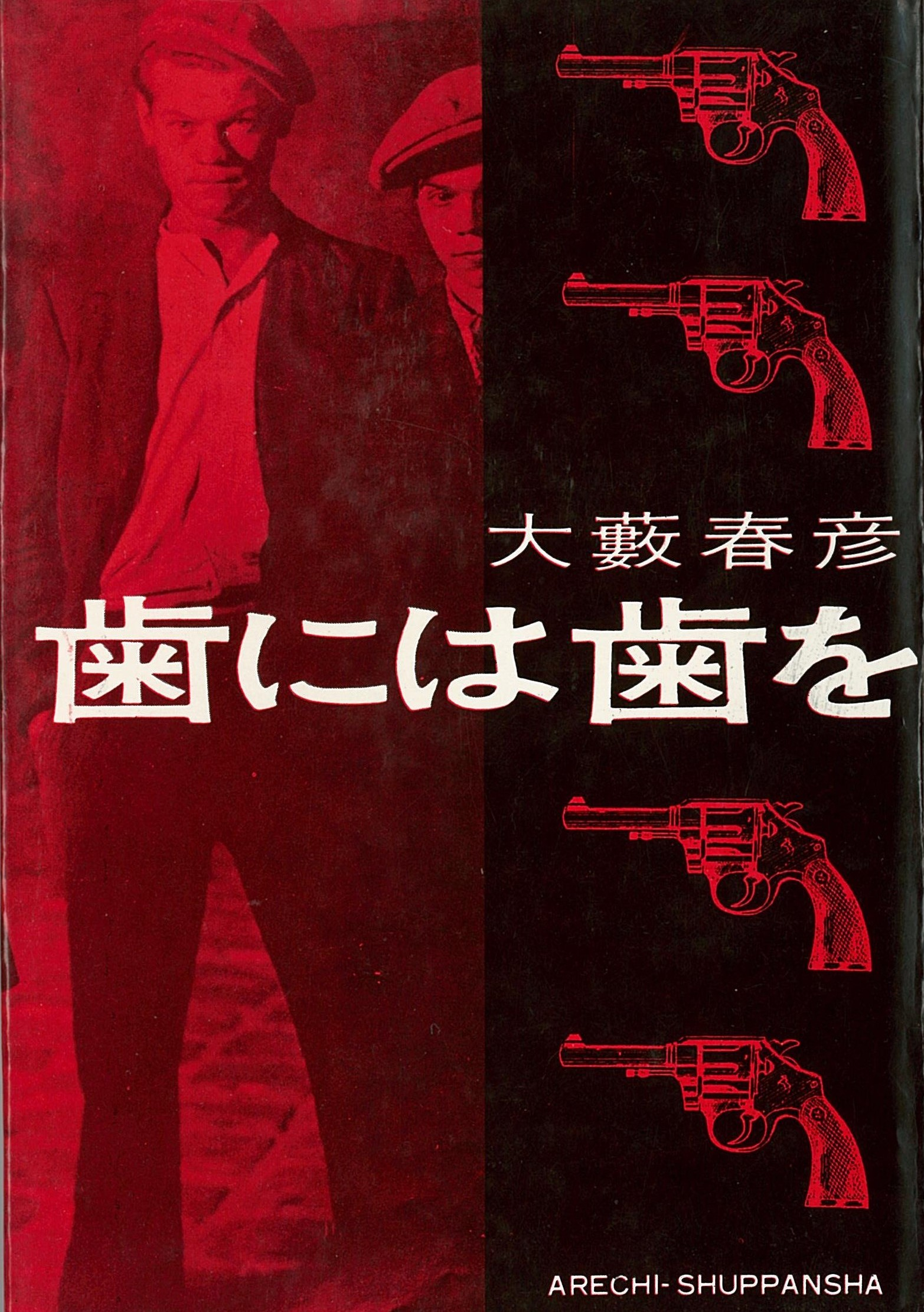 first issue in 1960